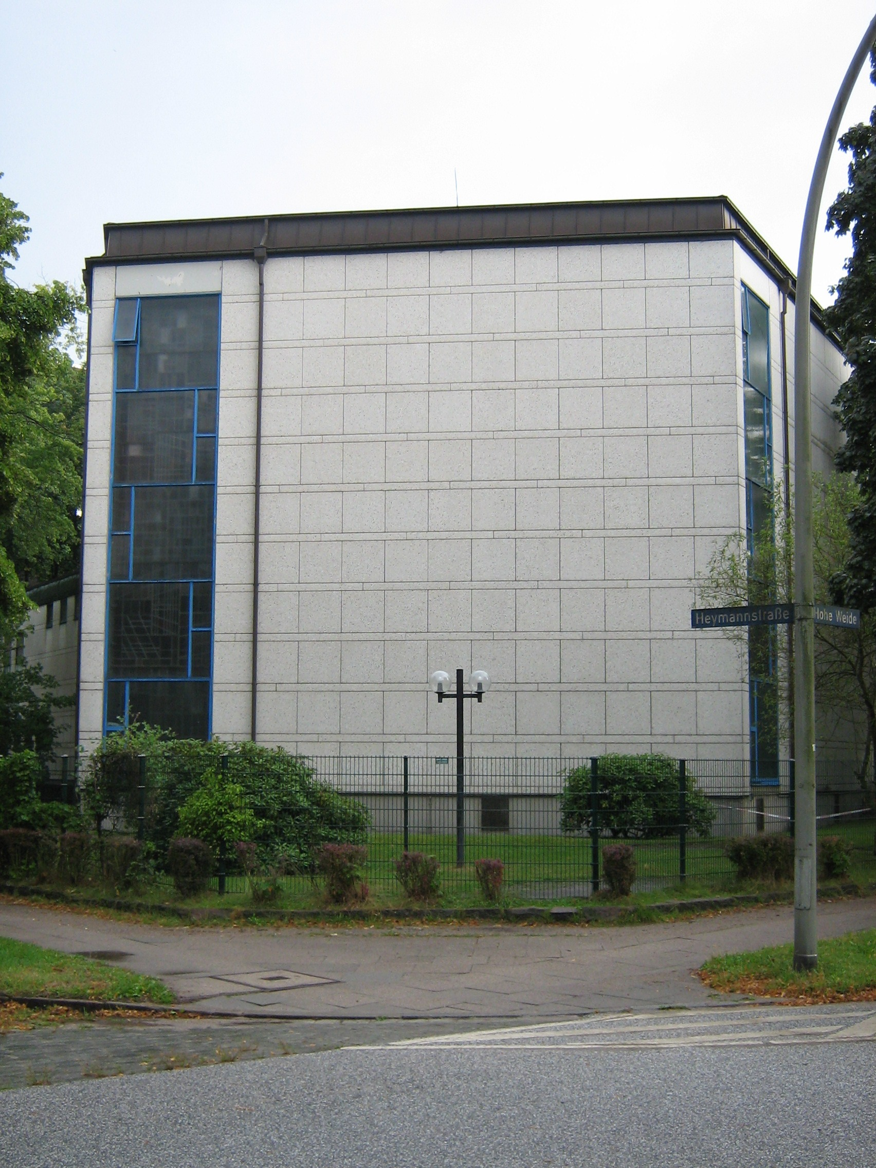 Synagogue Hohe Weide Hamburg eastern side